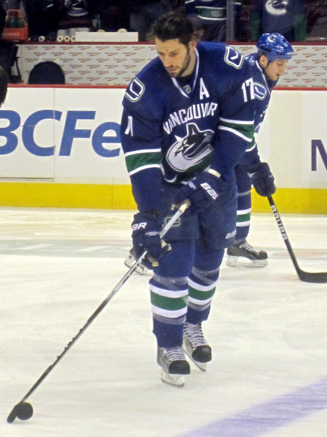 Vancouver Canucks forward Ryan Kesler during a game against the New York Islanders on March 16, 2010, in Vancouver.